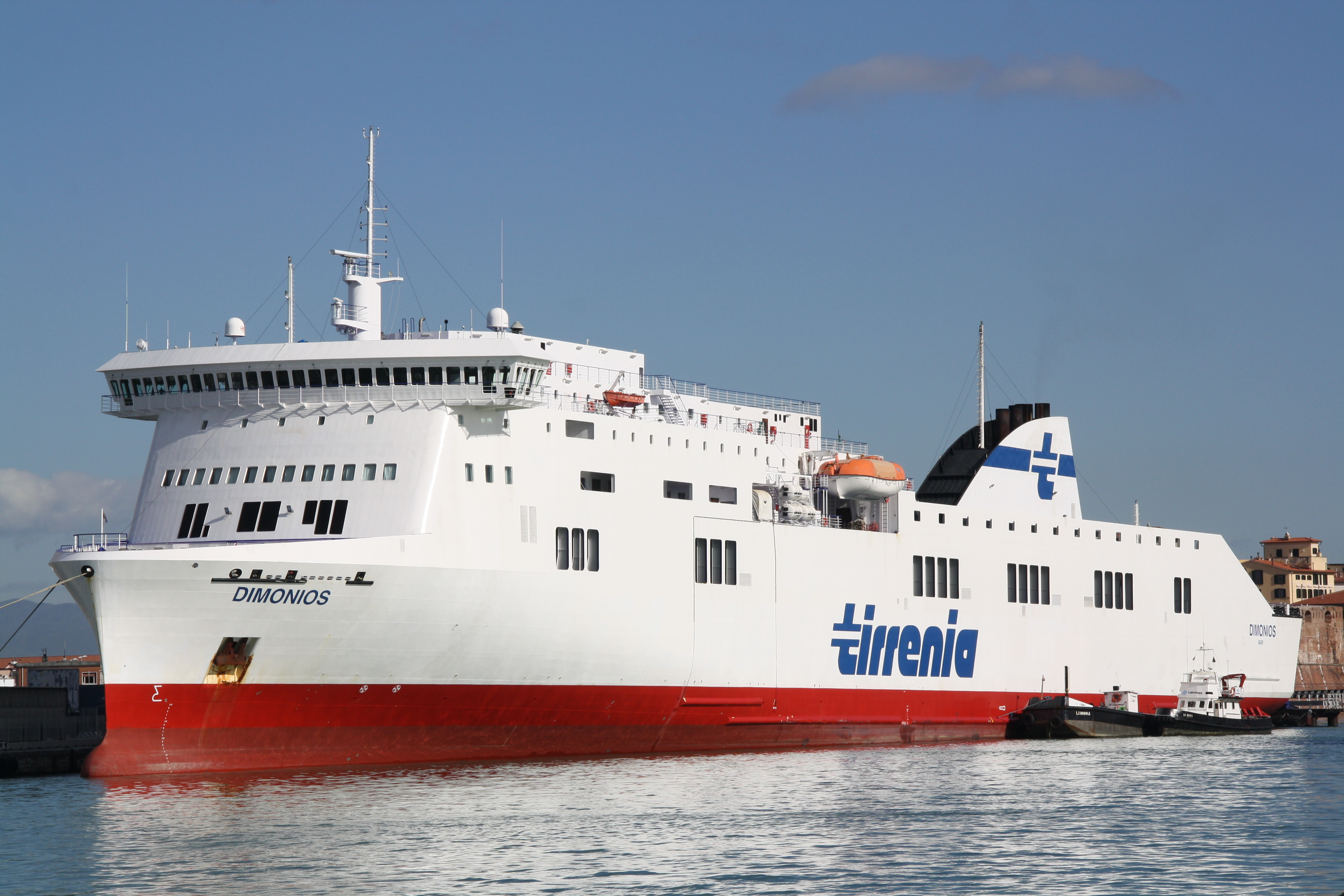 Italy, Port of Livorno. The Tirrenia Compagnia Italiana di Navigazione ro-pax ferry Dimonios berthed at “Sgarallino” wharf.